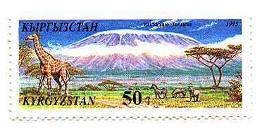 Stamp of Kyrgyzstan